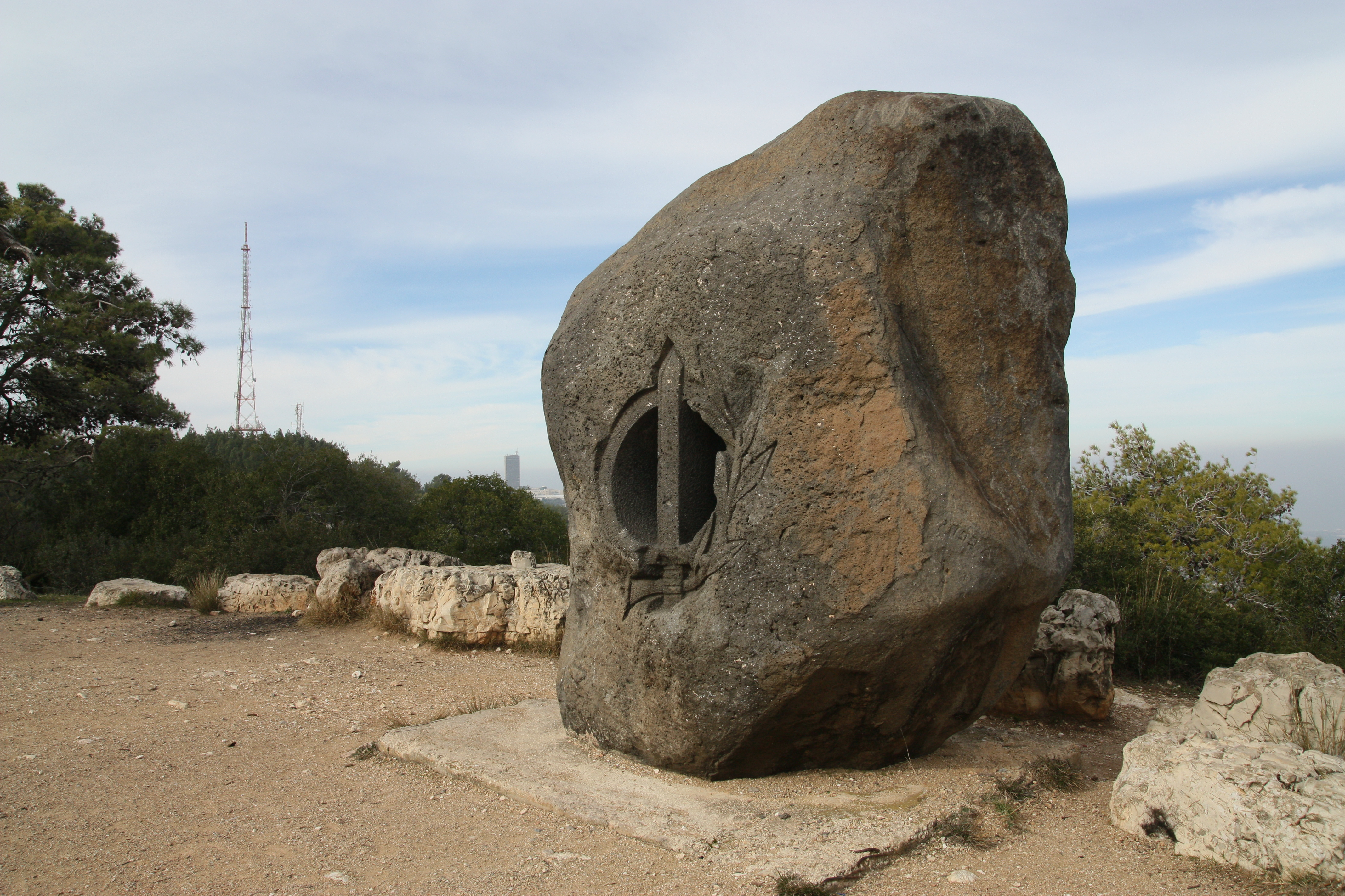 Mount Carmel